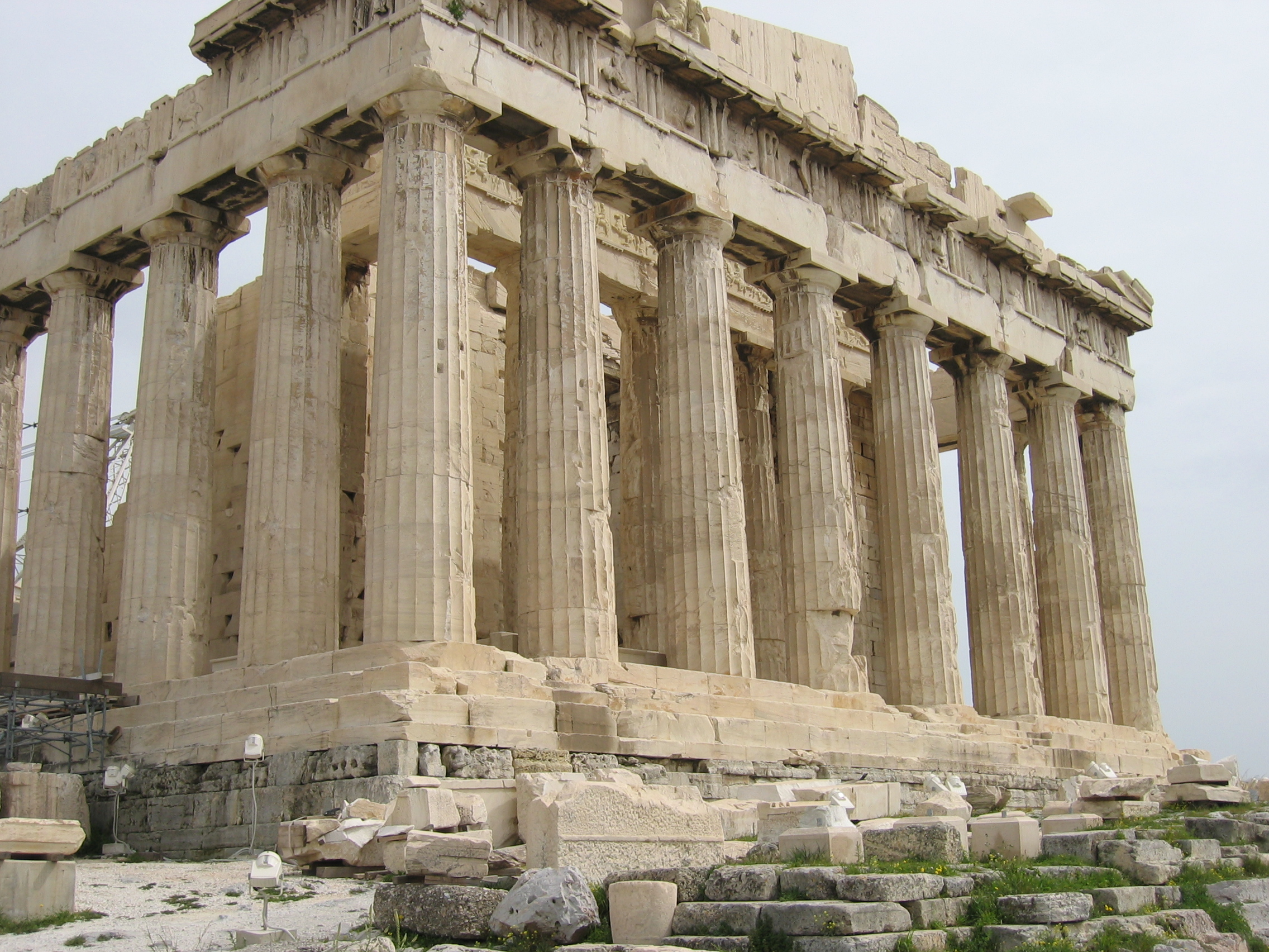 Western and part of the northern facade of the Parthenon, Athens, Greece